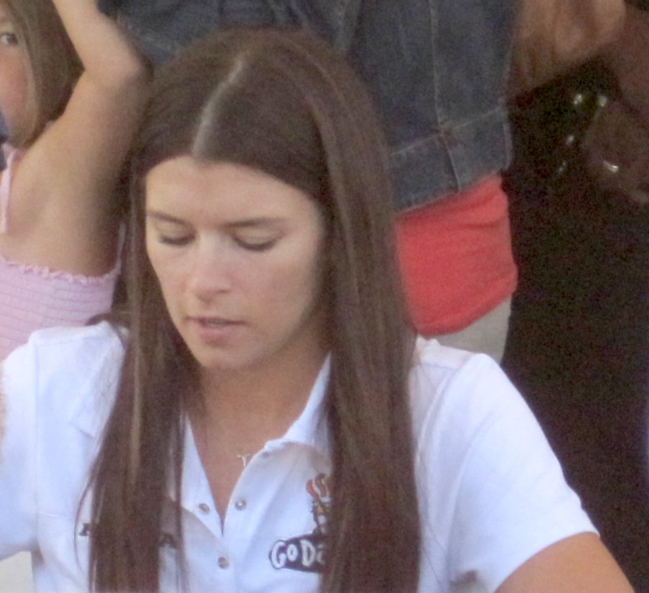 Andretti Autosport's Danica Patrick at the 2010 Indianapolis 500 opening weekend autograph session at Castleton Square Mall in Indianapolis, Indiana on Friday, May 14, 2010.